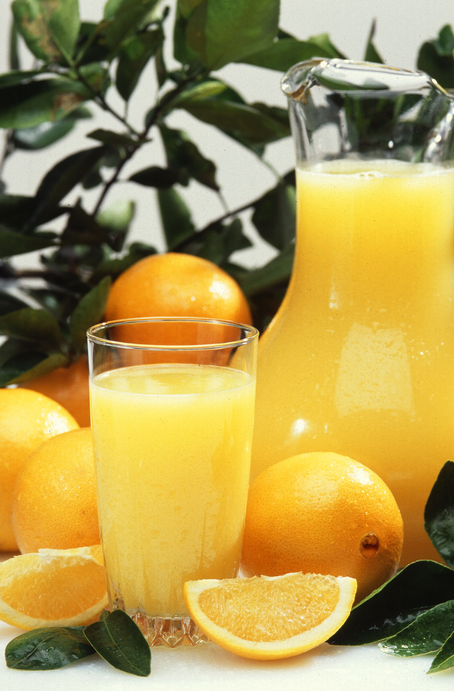 Original Caption: Fifty years ago, frozen orange juice was just a flavorless commercial flop. The only orange juice you could get back then was either squeezed from fresh oranges, mixed from a relatively tasteless concentrate, or poured from a can-and it tasted like a can! All this at a time when lots of good Florida oranges were going to waste. 60 years ago, Louis G. MacDowell, director of research for the Florida Citrus Commission, had an idea. He suggested that adding a little single-strength fresh juice, or "cut-back," to slightly overconcentrated orange juice might restore the flavor and aroma lost during vacuum evaporation. He took the idea to USDA researchers, the folks with the equipment and expertise to help develop the idea. Not only did it work but the vastly improved concentrate could be easily frozen. And so began the success story that's now such a familiar sight on the breakfast table-frozen concentrated orange juice.